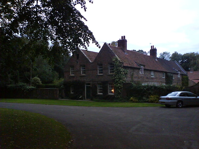 Rusticated cottage, Nun Monkton, North Yorkshire, England. Close to the church, and within the gates of the Priory estate, is this 18thC cottage.